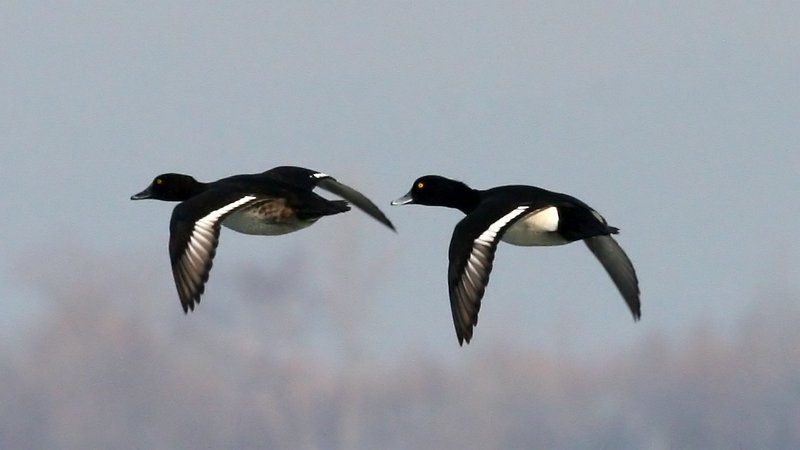 Tufted Duck (Aythya fuligula) This image was created by Ken Billington. If you are interested in a high resolution copy of this image, please contact the author Ken Billington in order to negotiate conditions of use. Do not copy this image illegally by ignoring the terms of the license below, as it is not in the public domain. If you would like special permission to use, license, or purchase the image please contact me to negotiate terms. More free images can be found on Ken Billington's Bird & Wildlife Photography.